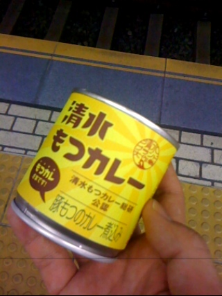 Shimizu Motsu Currymade by Hagoromo Foods Corporation